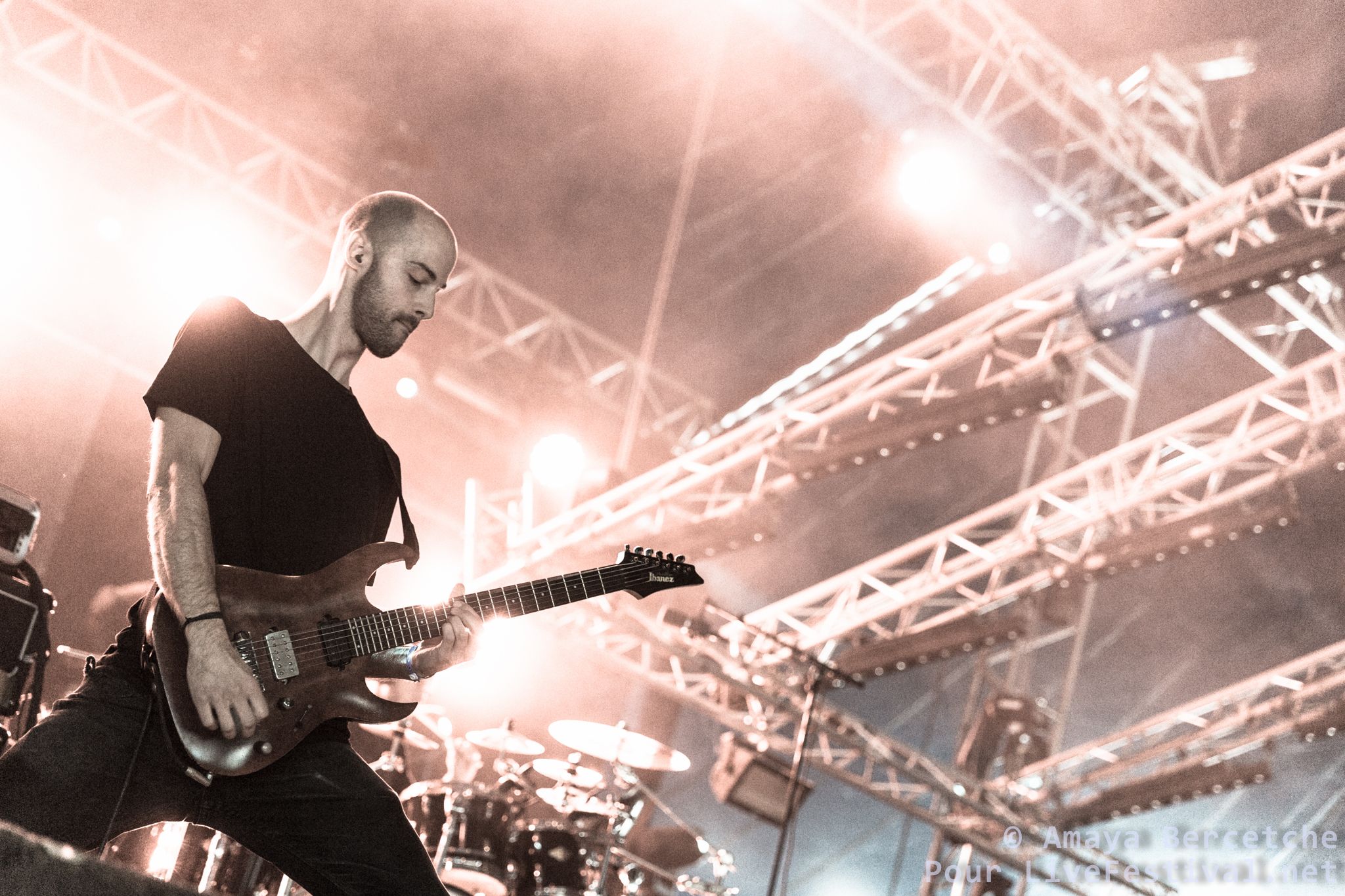 A photograph of guitarist Michael Hoggard of the New Zealand death metal band Ulcerate performing live with the band at Hellfest 2014 in France.